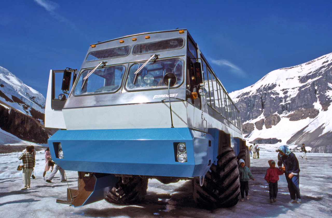 Athabasca Glacier tour mobile 1983